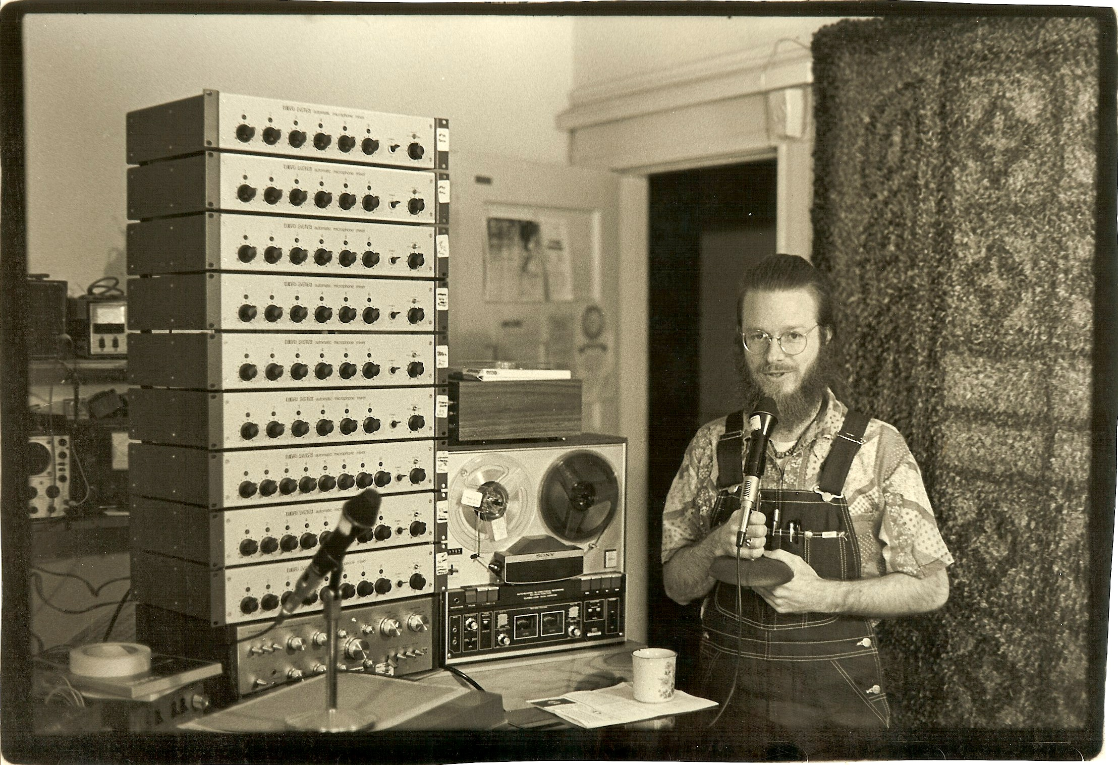 Dan Dugan testing the largest order for a single installation of his Model A-6 and A-8 automatic microphone mixers. San Francisco